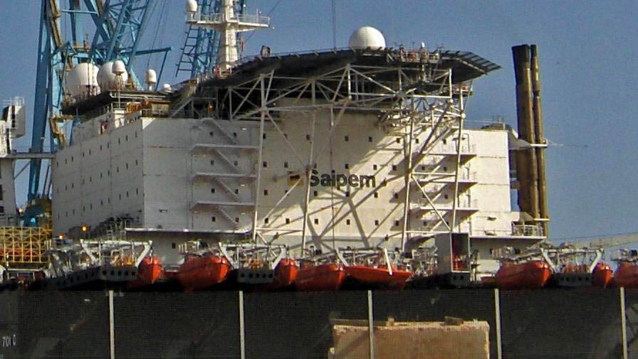 Side view of Saipem 7000 crane